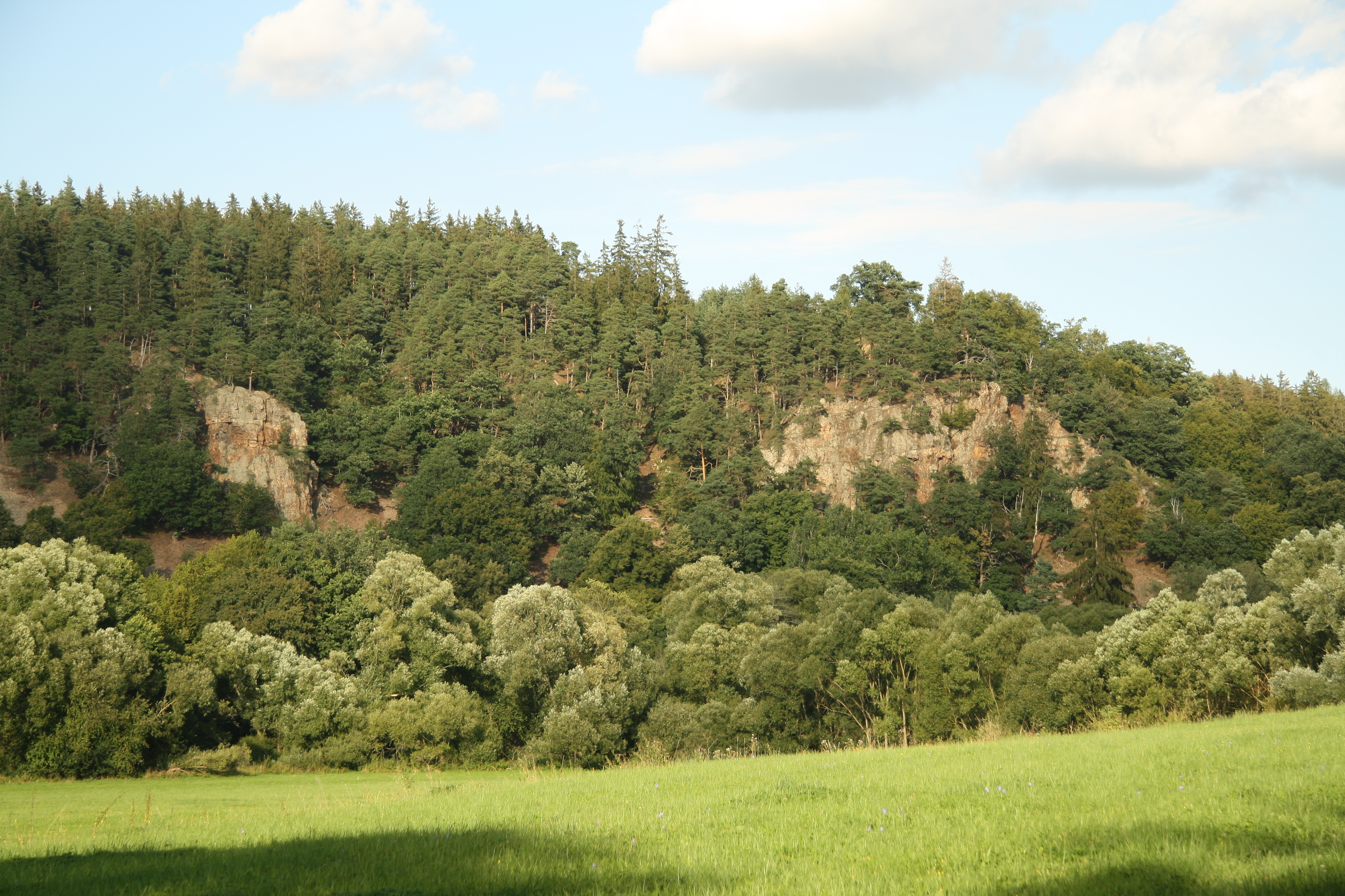 Overview of natural reserve Suché skály (photo taken from Lubnice) near Kostníky, Třebíč District.